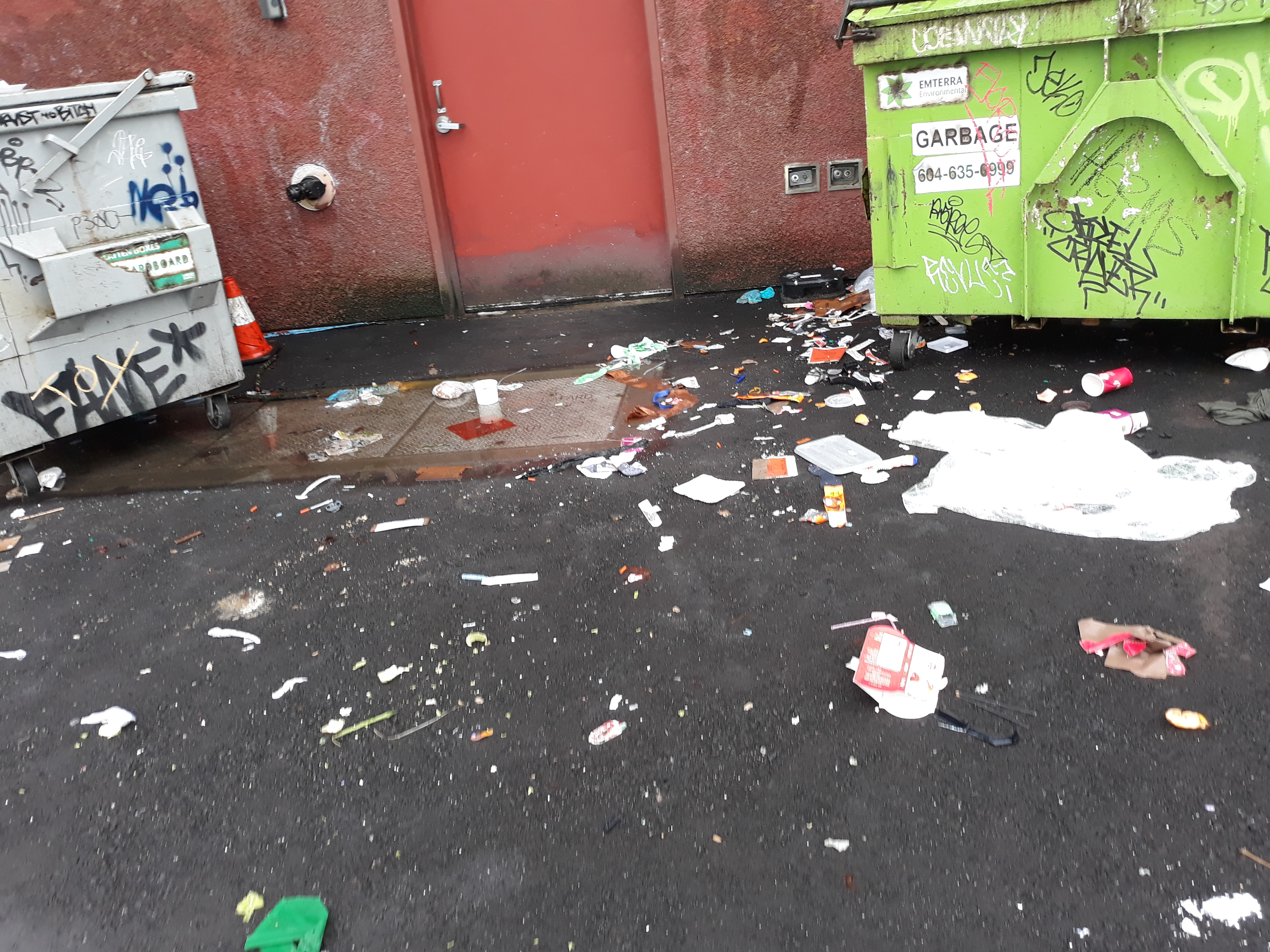 Hypodermic needles discarded on Station Street in Vancouver, BC